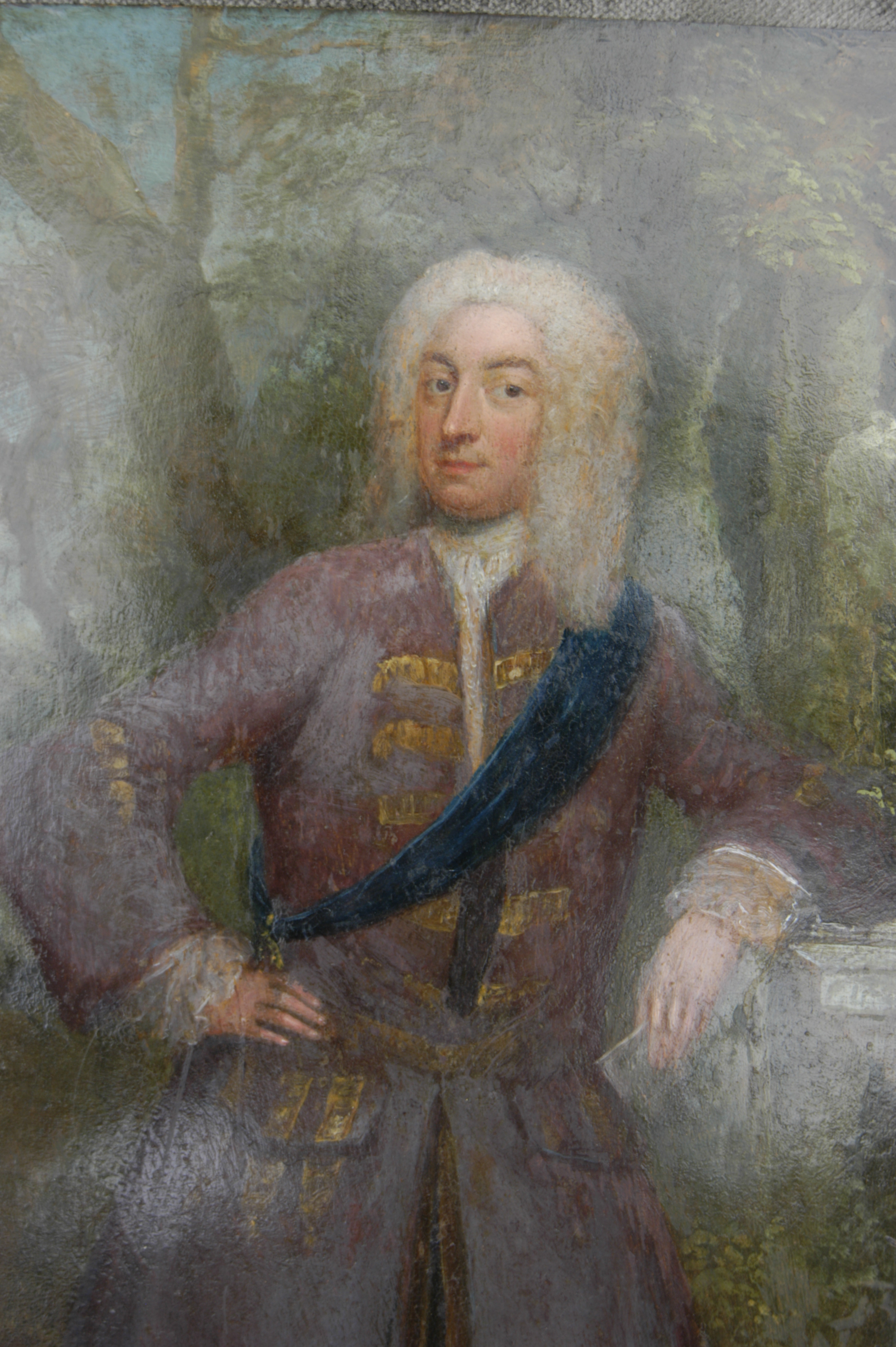 My photo (R.De SalisRodolph (talk) 17:58, 14 August 2013 (UTC)) of an oil-on-copper painting of a 1720s Knight of the Garter sash.